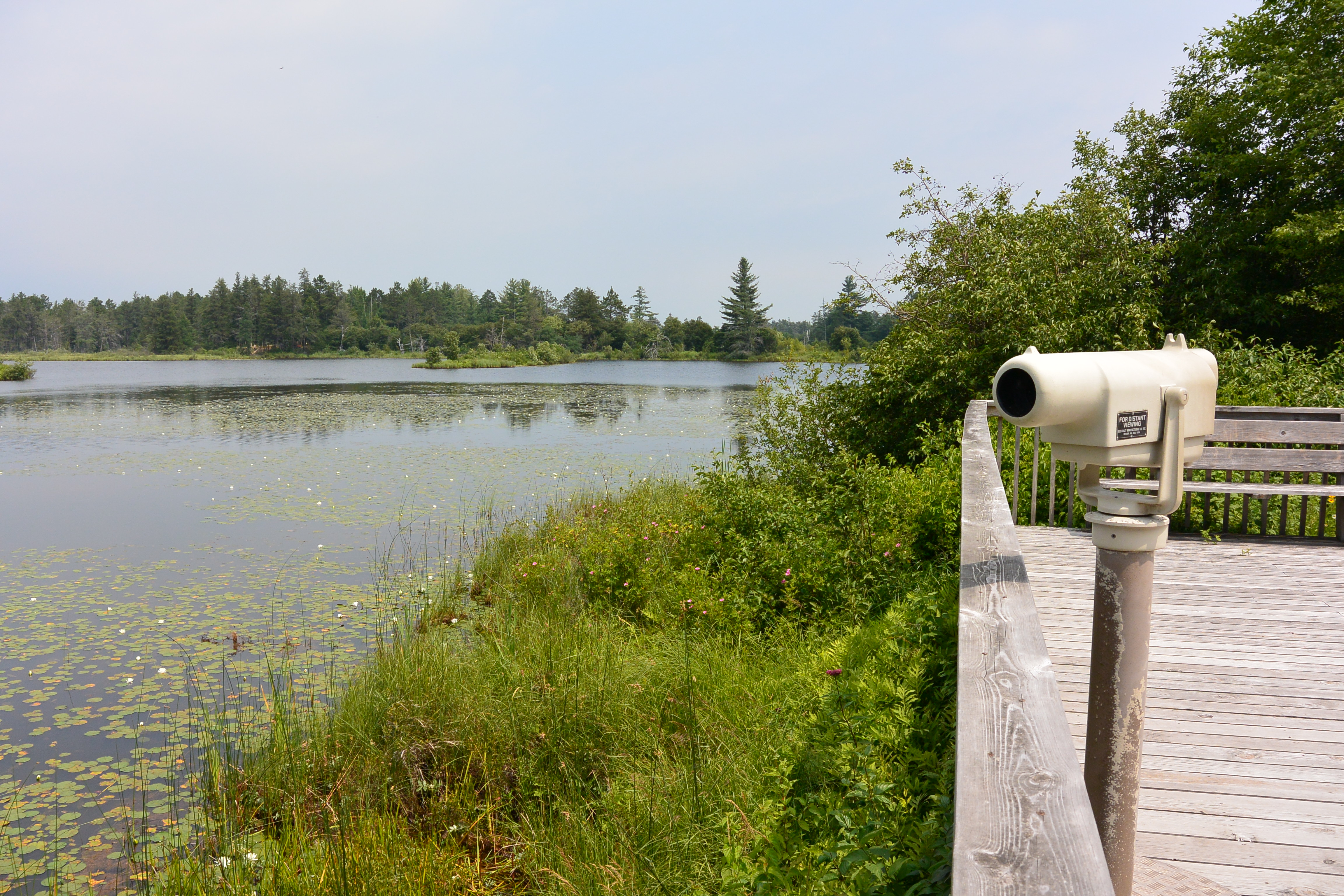 Photo by Joanna Gilkeson/USFWS